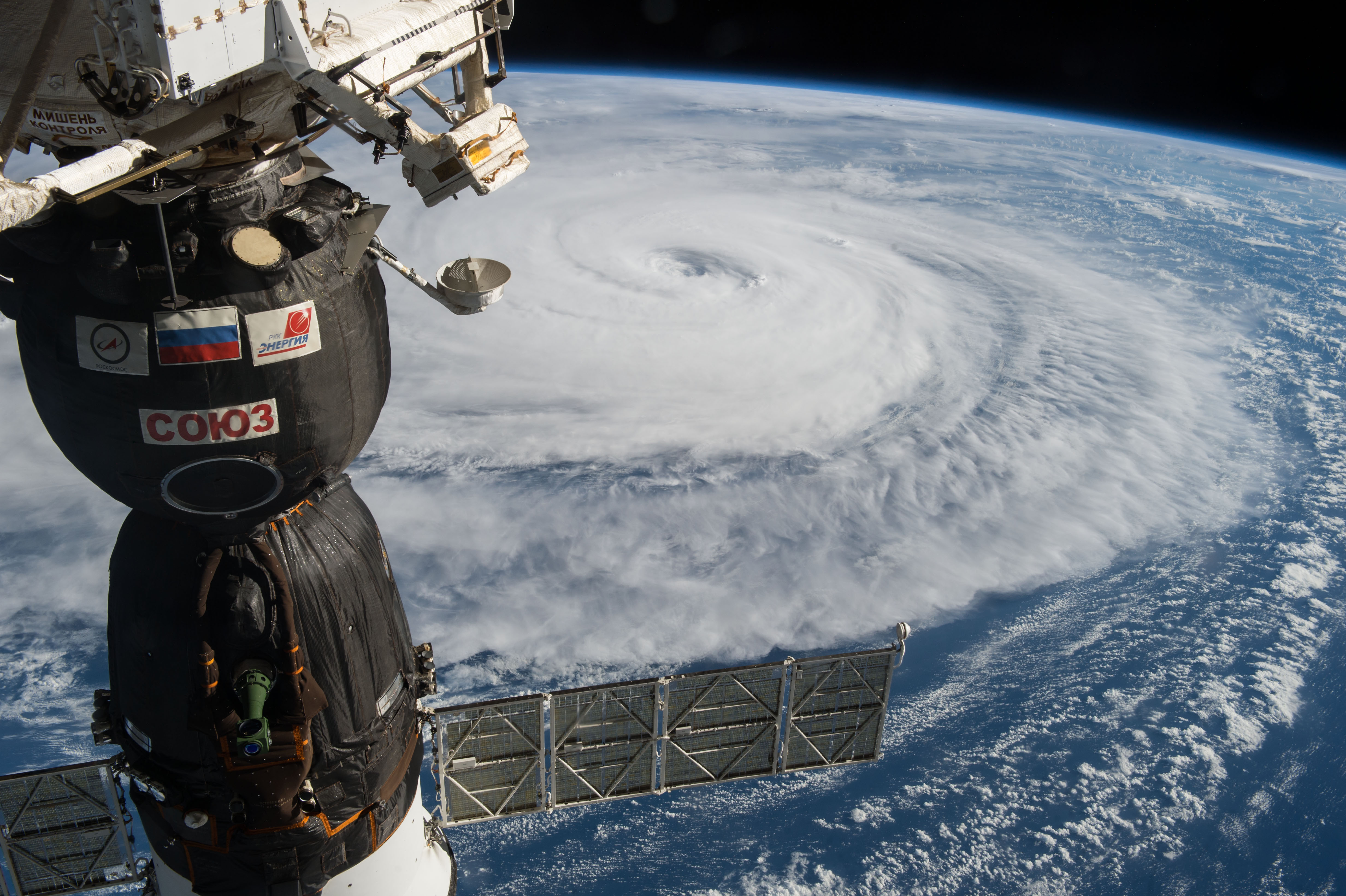 Typhoon Noru seen on the International Space Station (ISS).